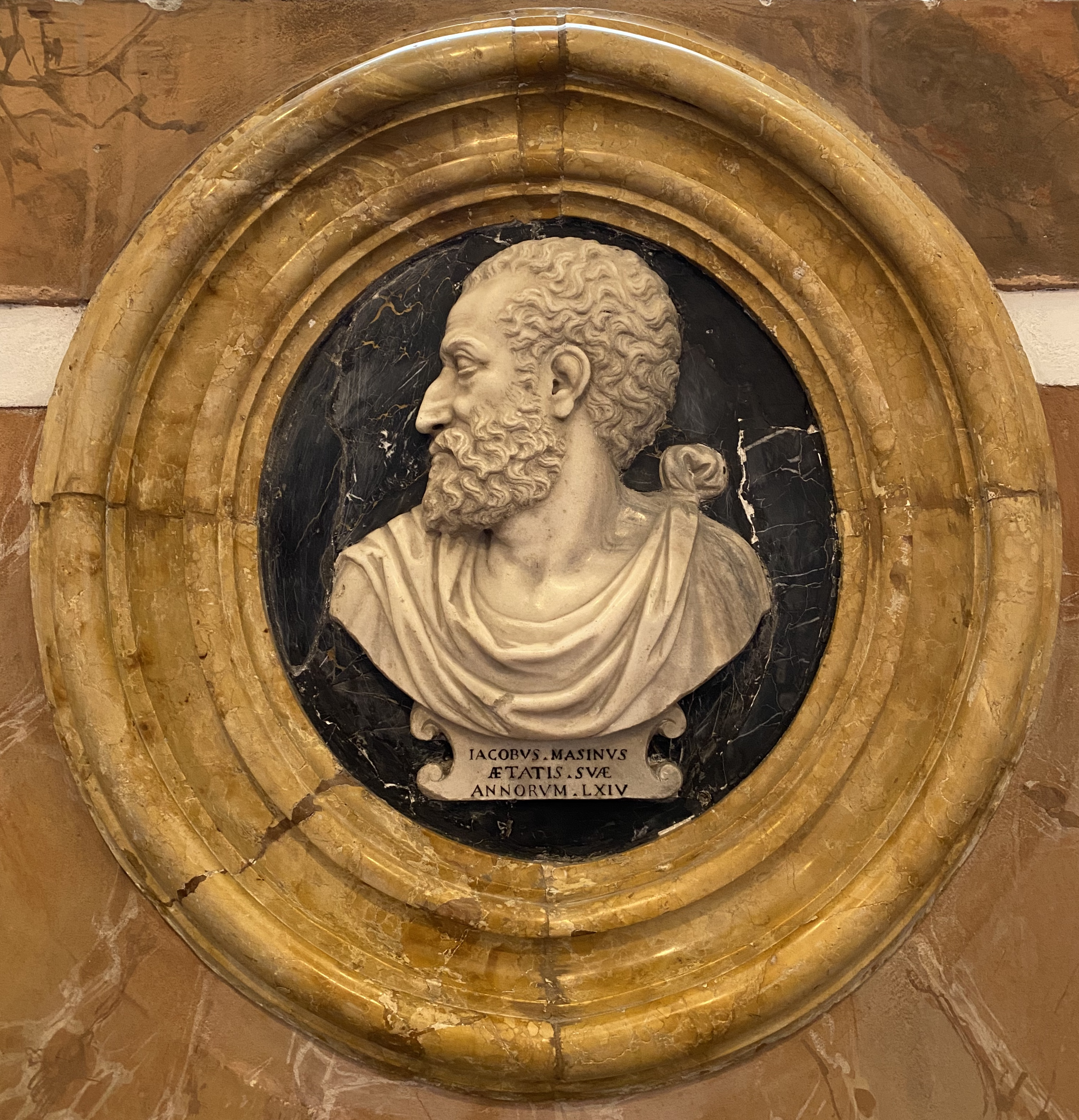 Iacopo Masino